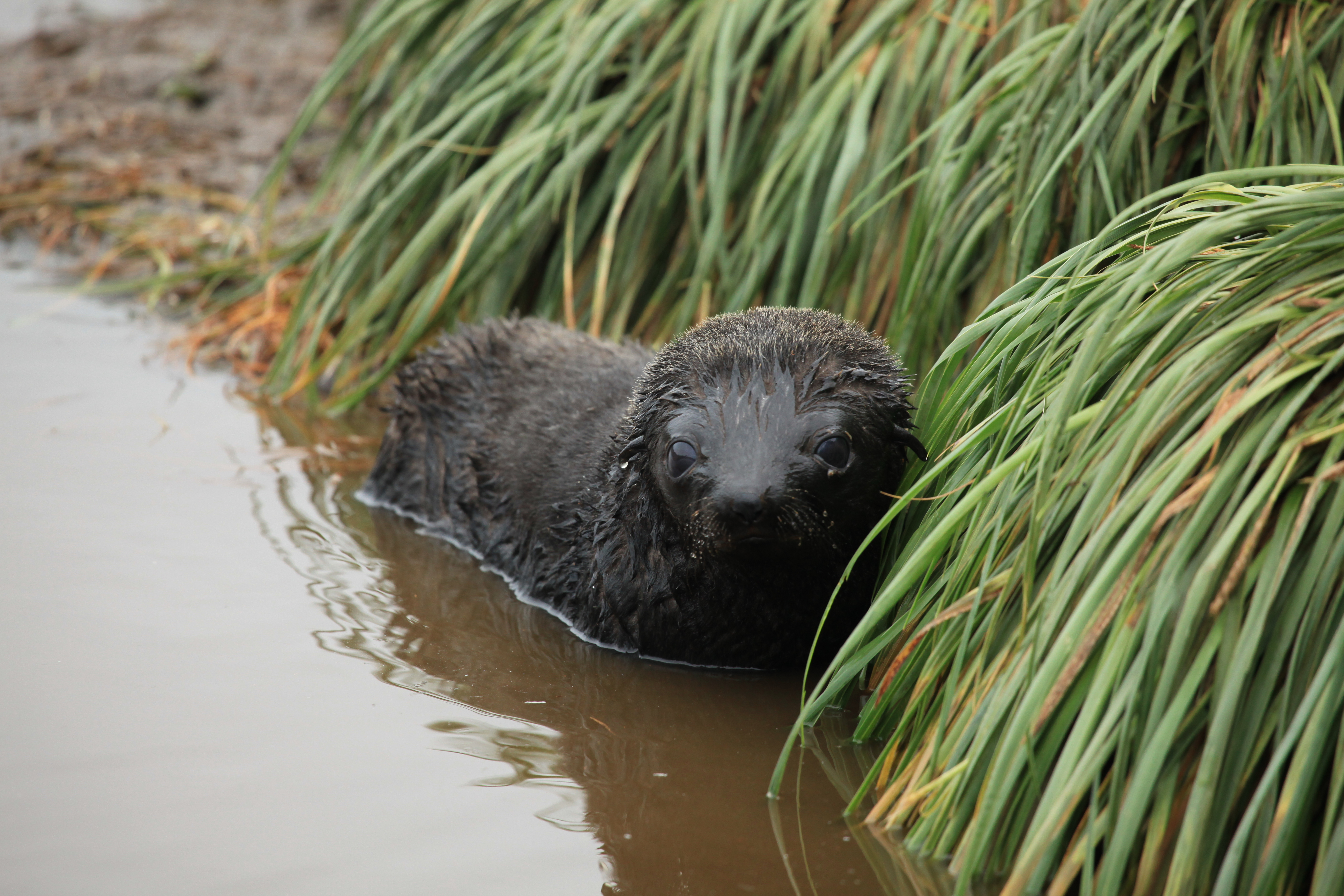 At Salisbury Plain, South Georgia.